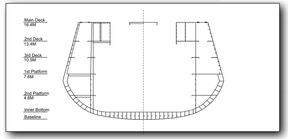 Zumwalt class destroyer (center cut design)